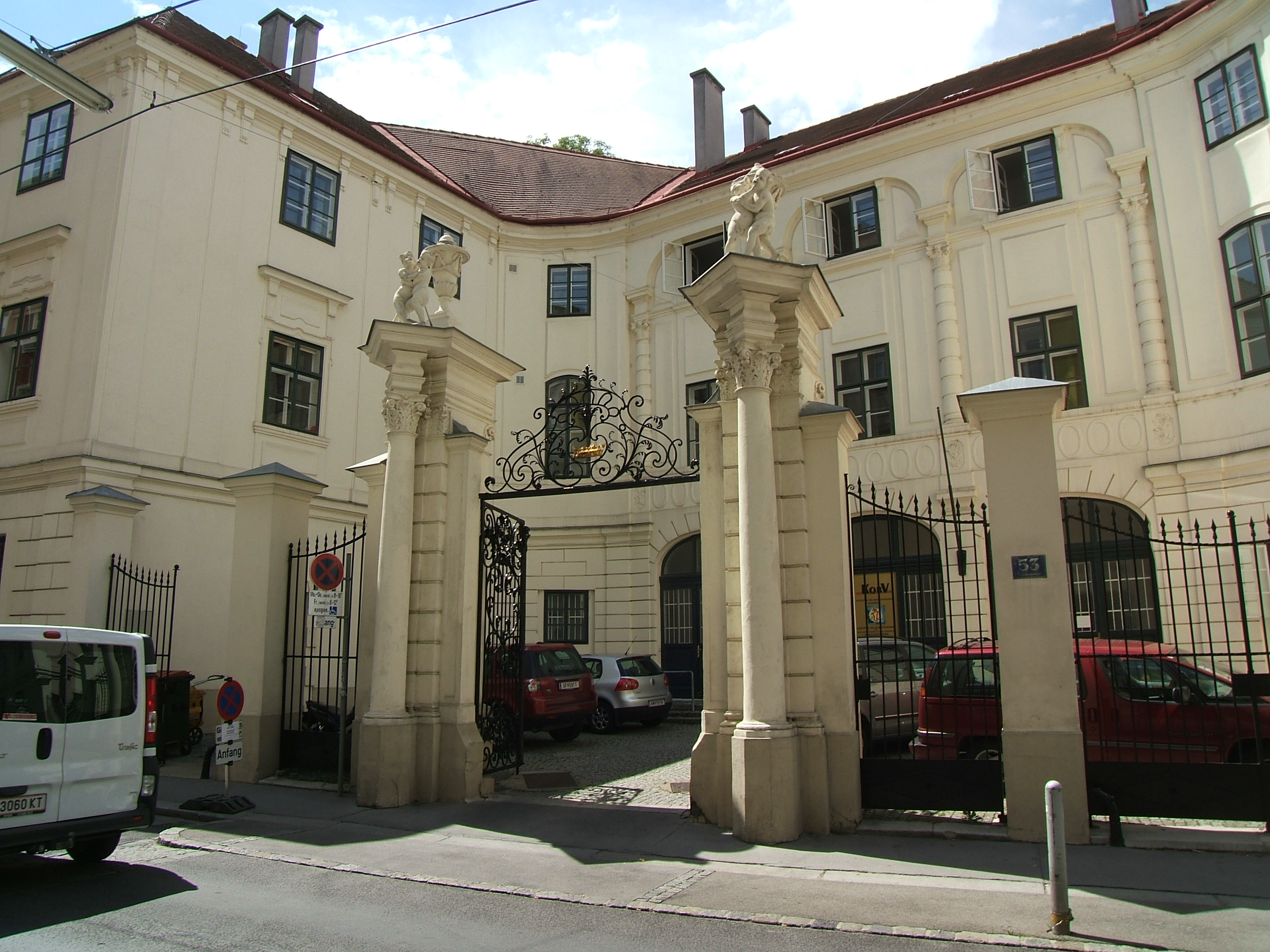 Palais Damian in Vienna, 8th district Lange Gasse 53